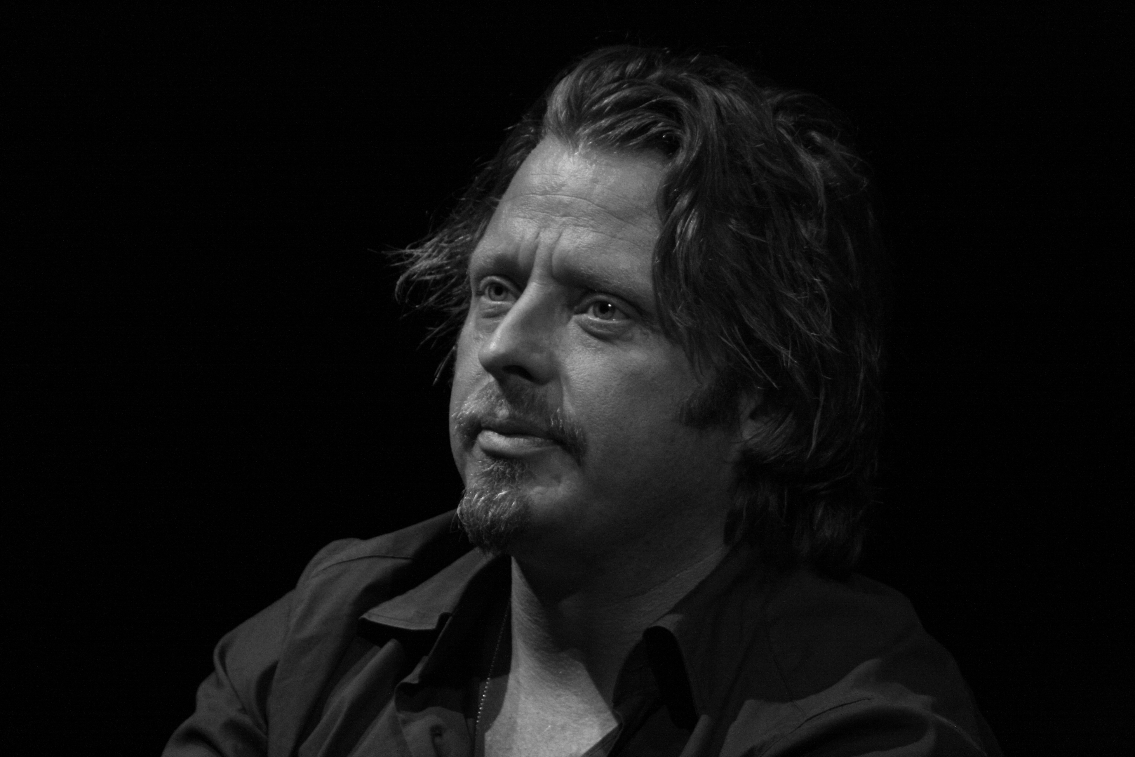 English adventurer Charley Boorman